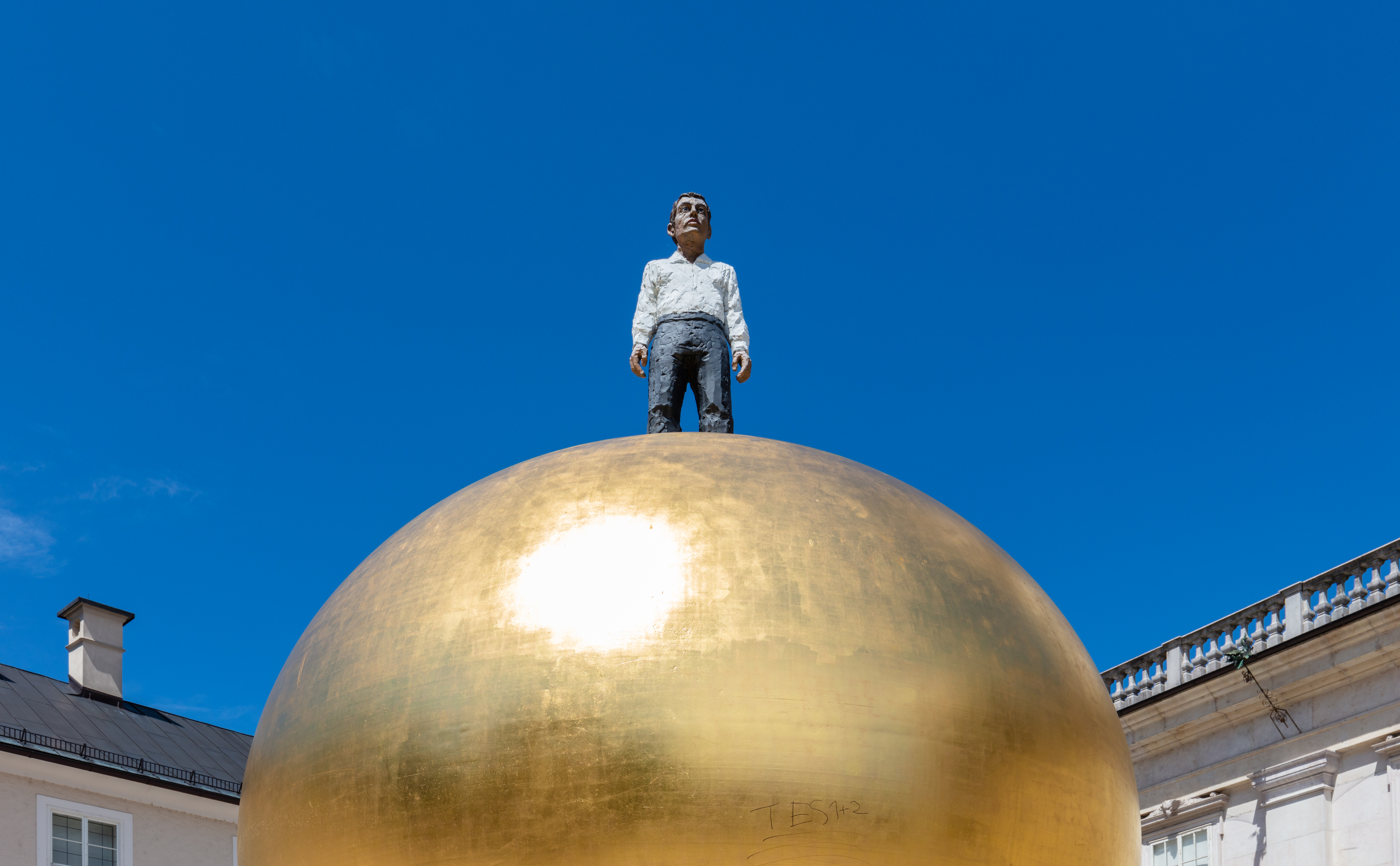 Sphaera, Salzburg, Austria